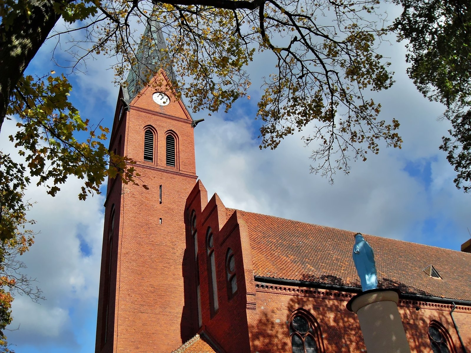 Figure and part of the roof of the tower